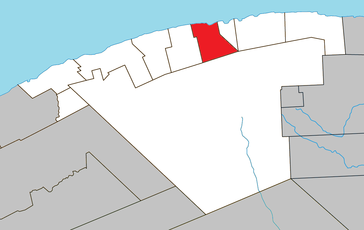 Location of Rivière-à-Claude, Quebec within La Haute-Gaspésie Regional County Municipality.